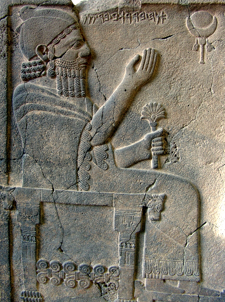 King of Samal. Hittite relief from Samal (now Zincirli). Pergamonmuseum, Berlin